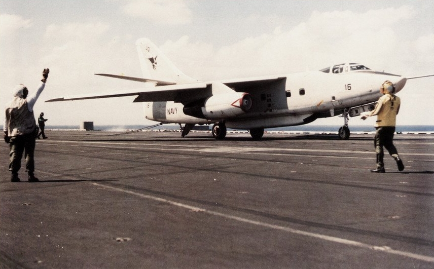 A U.S. Navy Douglas EA-3B Skywarrior from Fleet Air Reconnaissance Squadron VQ-2 "Batmen" after landing aboard aircraft carrier USS Saratoga (CV-60). A detachment of VQ-2 was assigned to Carrier Air Wing 17 (CVW-17) aboard the Saratoga for a deployment to the Mediterranean Sea from 26 August 1985 to 16 April 1986.